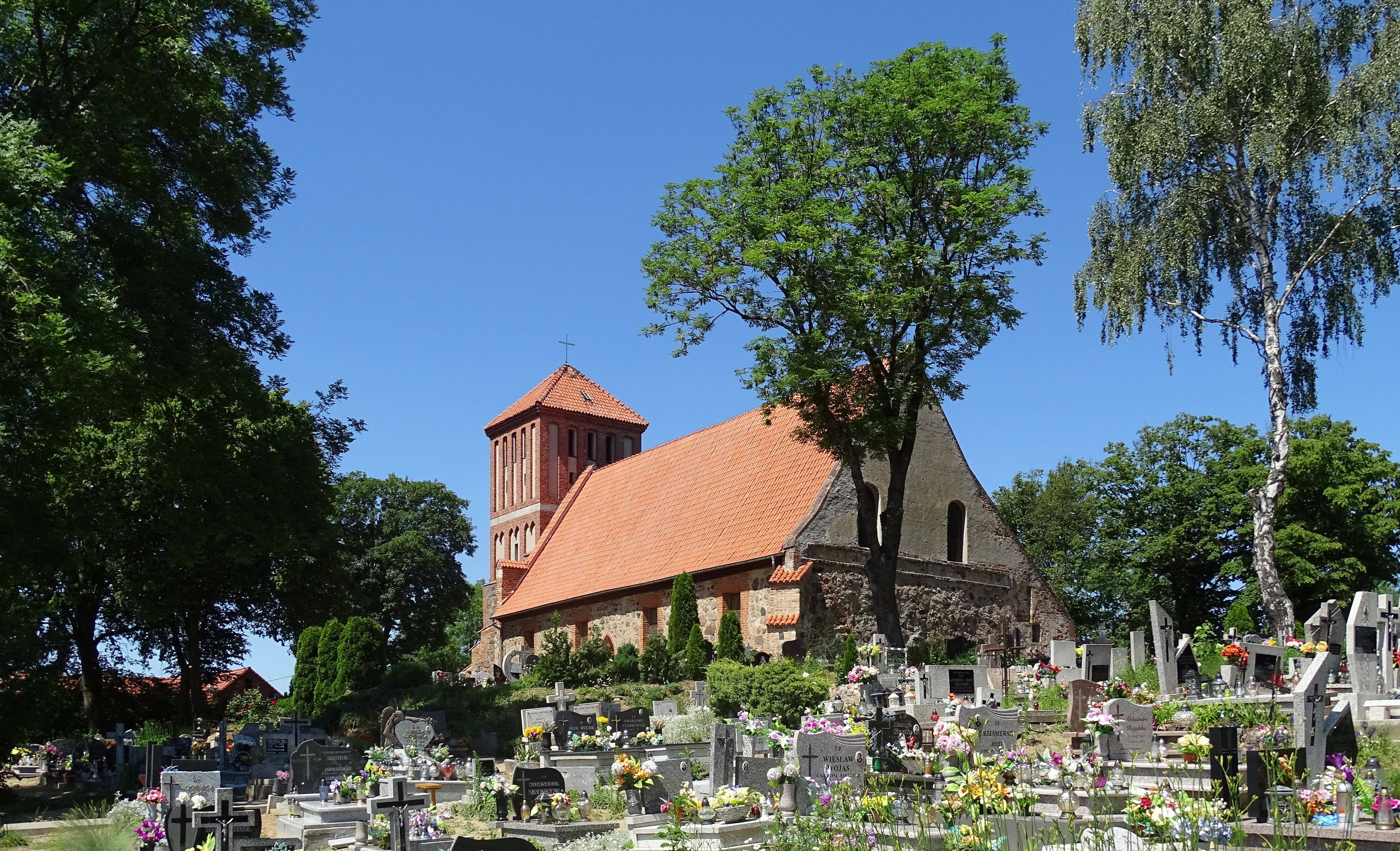 Linowo, Grudziądz county, Poland. Church of Saint Michael the Archangel from the XVI century.